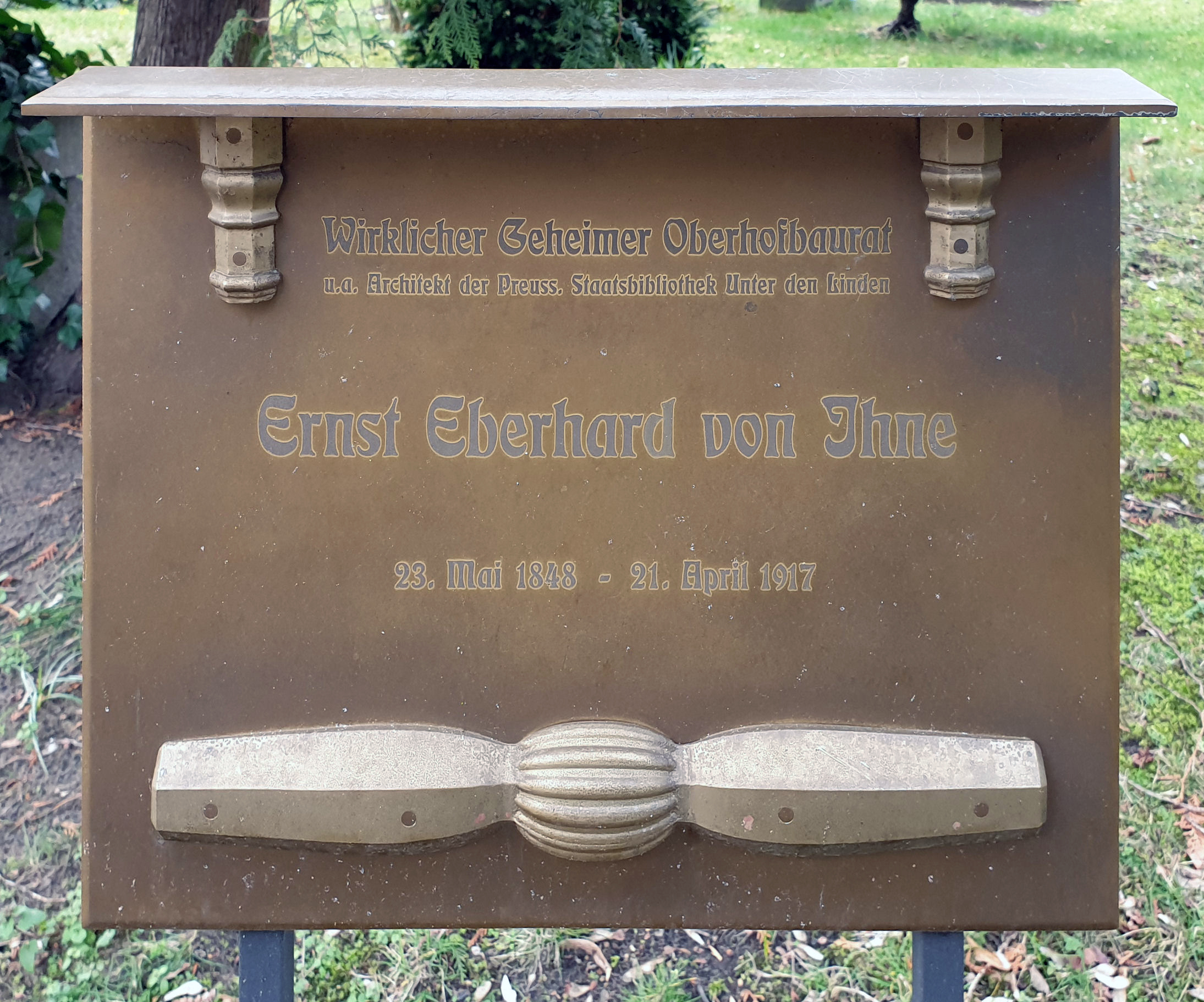 Grave, Ernst von Ihne, Liesenstraße 8, Berlin-Mitte, Germany